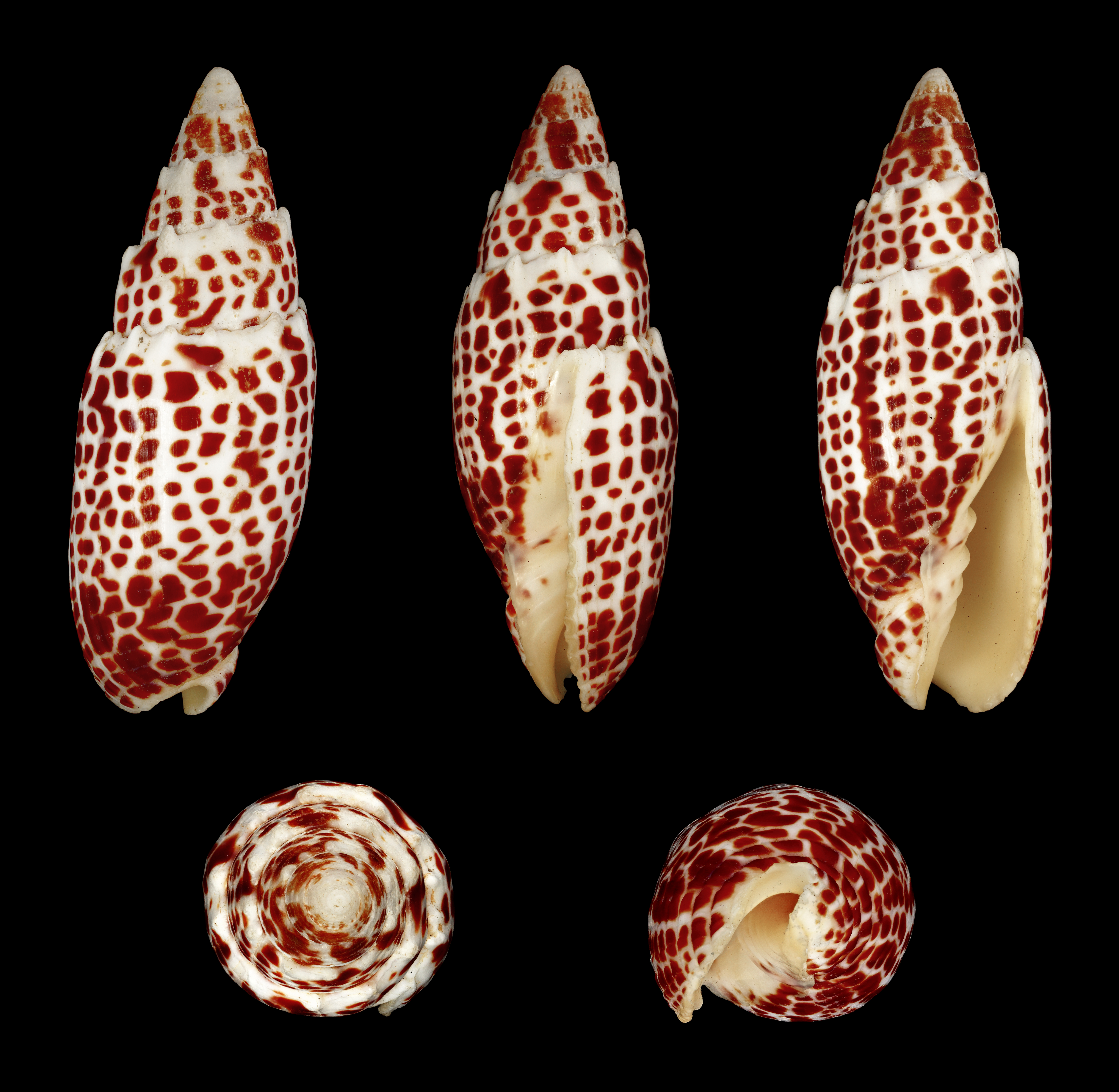 Papal Mitre; Length 8.3 cm; Originating from the Indo-Pacific; Shell of own collection, therefore not geocoded. Dorsal, lateral (right side), ventral, back, and front view.